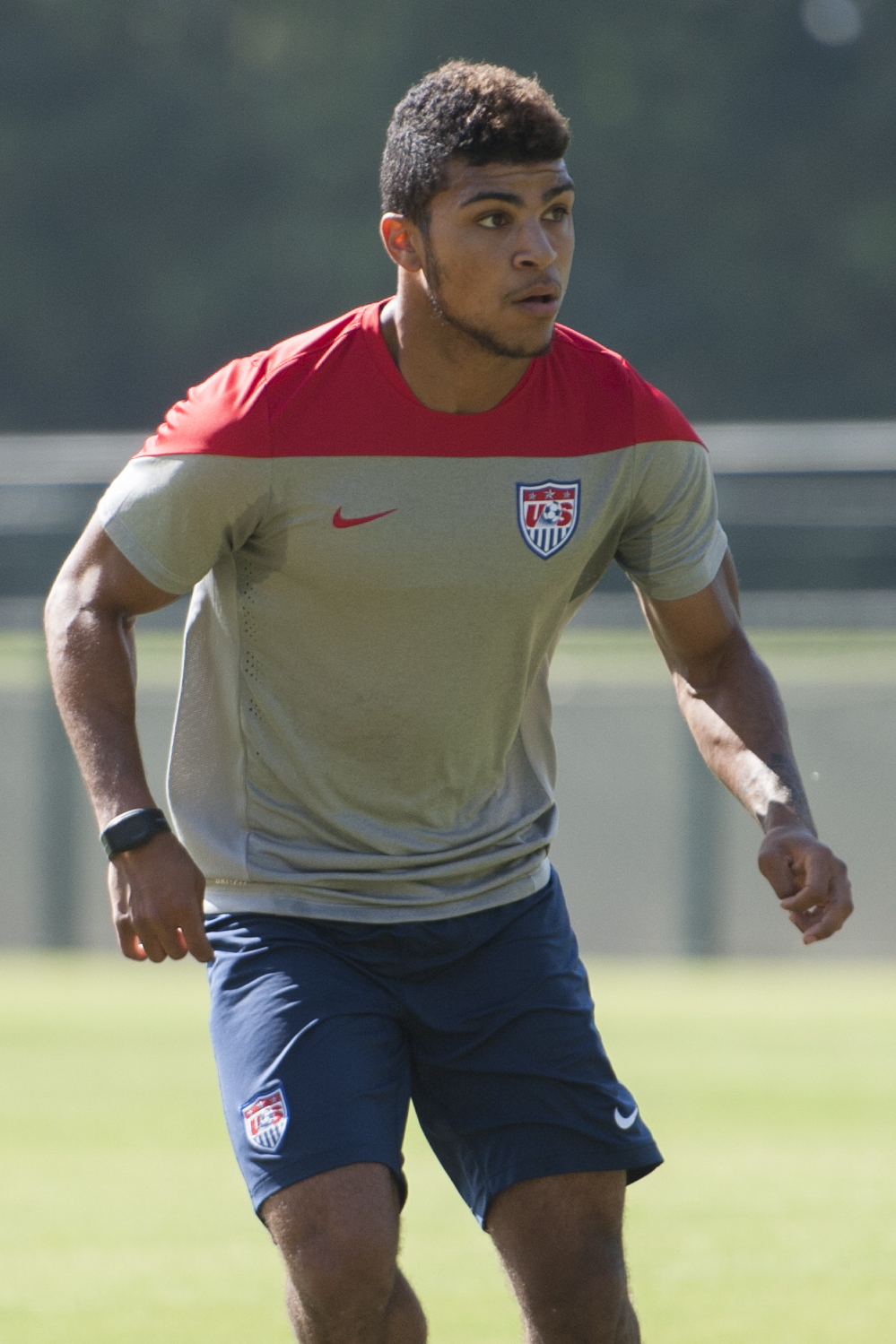 DeAndre Yedlin training with the United States national team in Brazil, 2014.